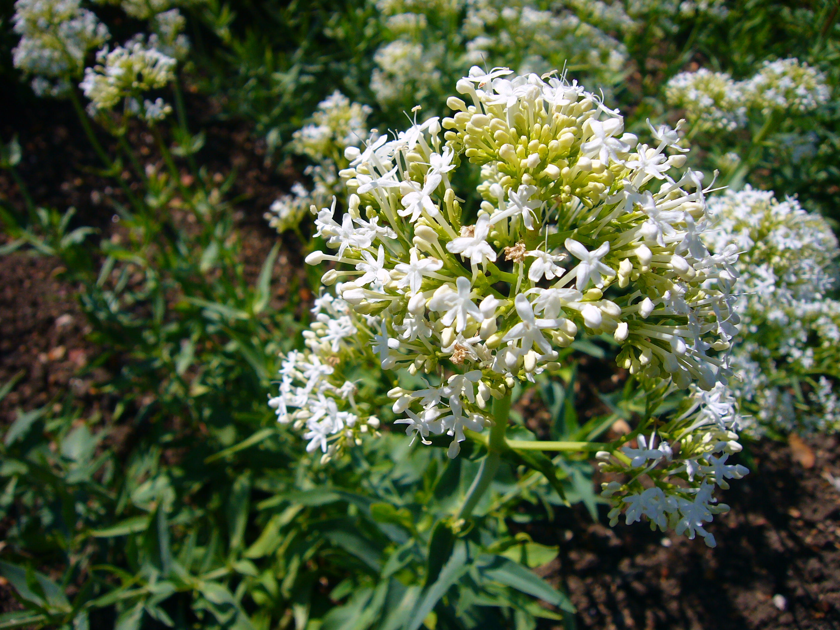 Centranthus ruber forma albus (flower) (photo taken in the Cambridge University Botanic Garden)